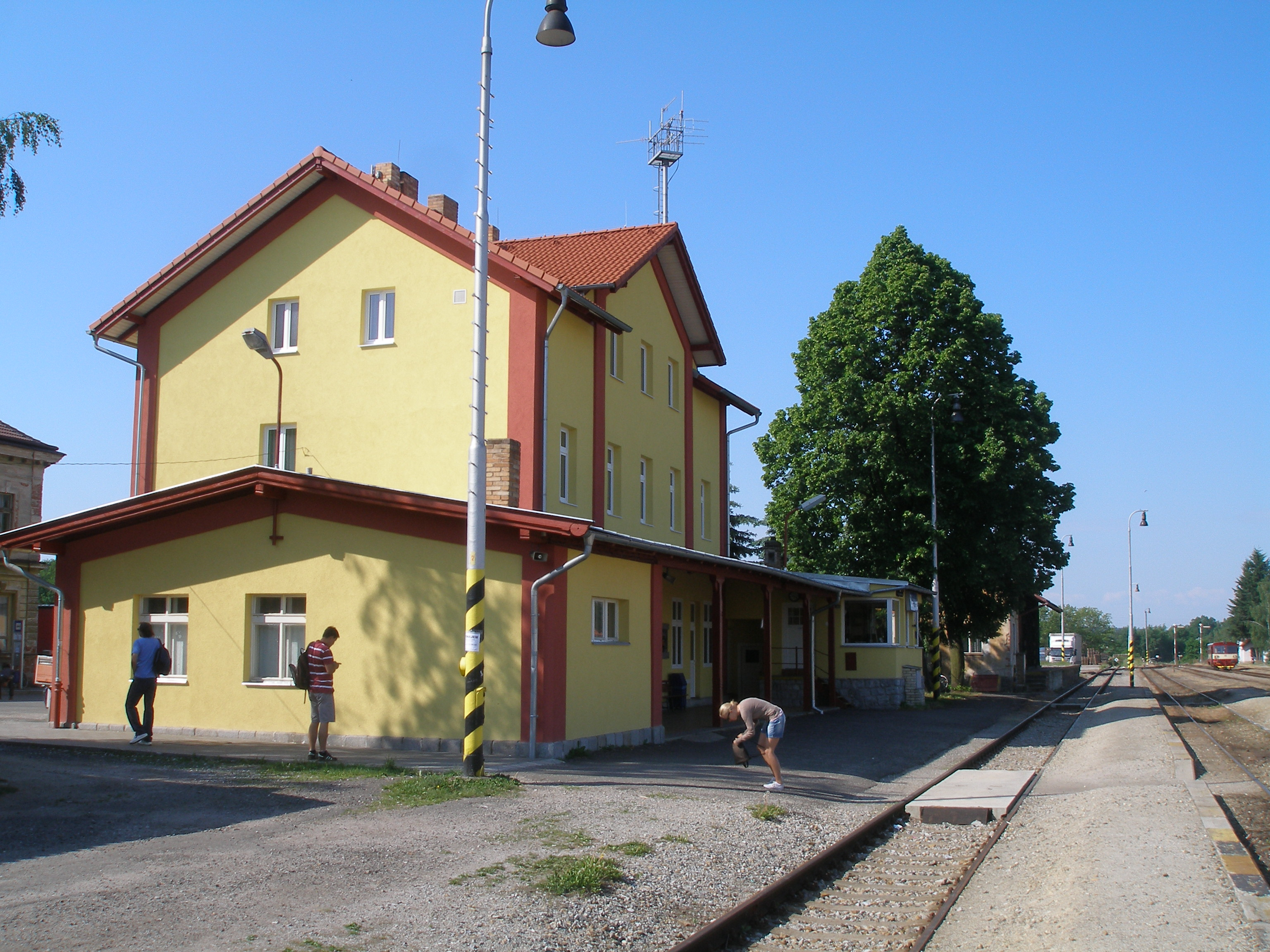 The railway station in Blatná